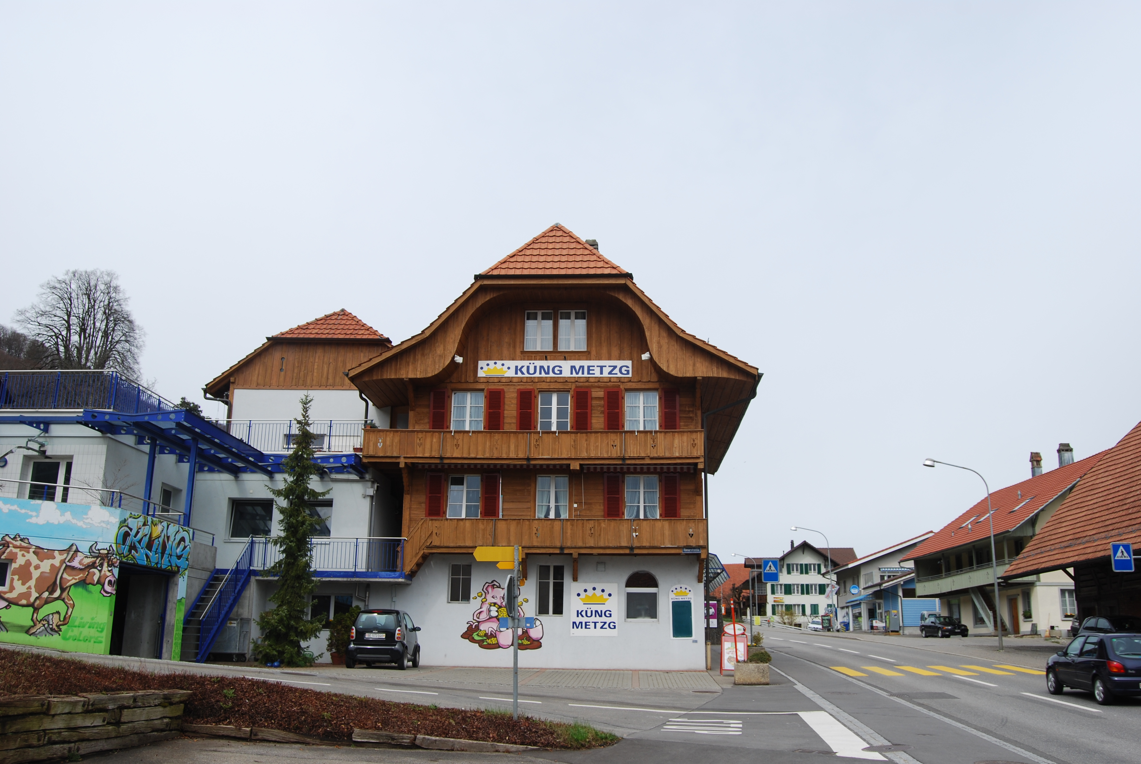 Toffen, canton of Bern, SwitzerlandEsperanto: Toffen, Kantono Berno, Svislando